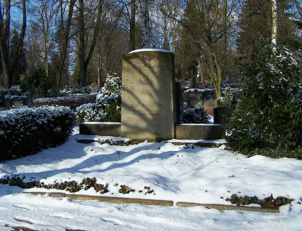 The honorary grave of mayor Fritz Janson in Eisenach cemetery.